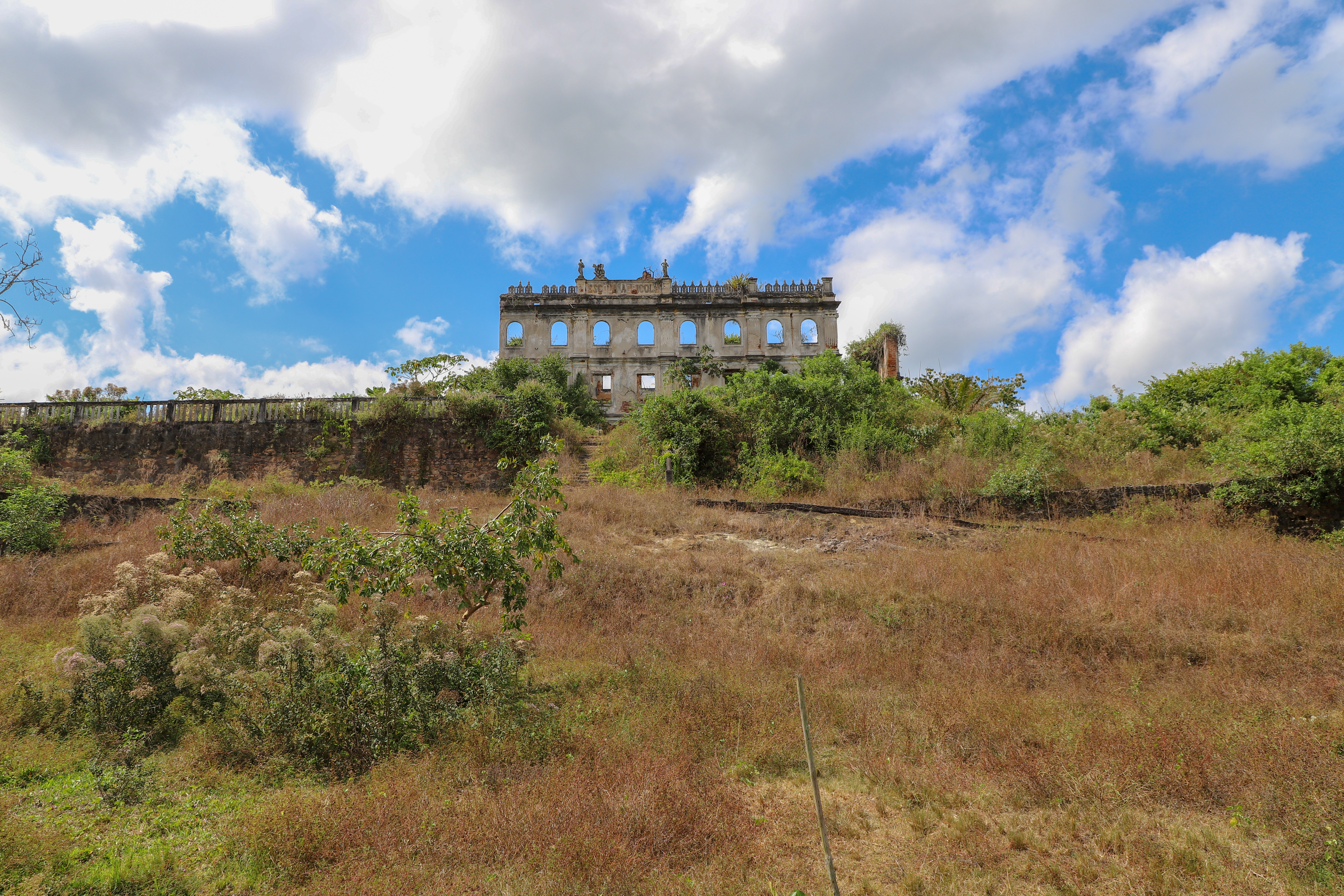 Escola Agrícola de São Bento das Lajes, São Francisco do Conde, Bahia, Brazil.